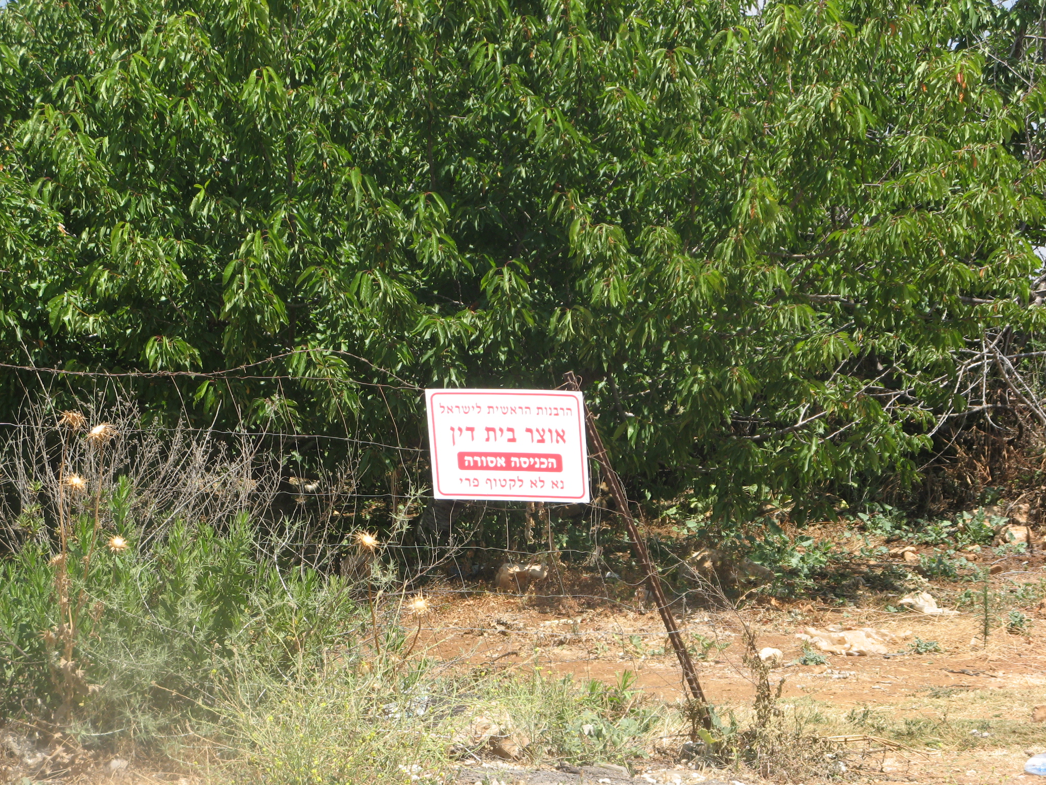 Otzar Beit Din sign in Ofra